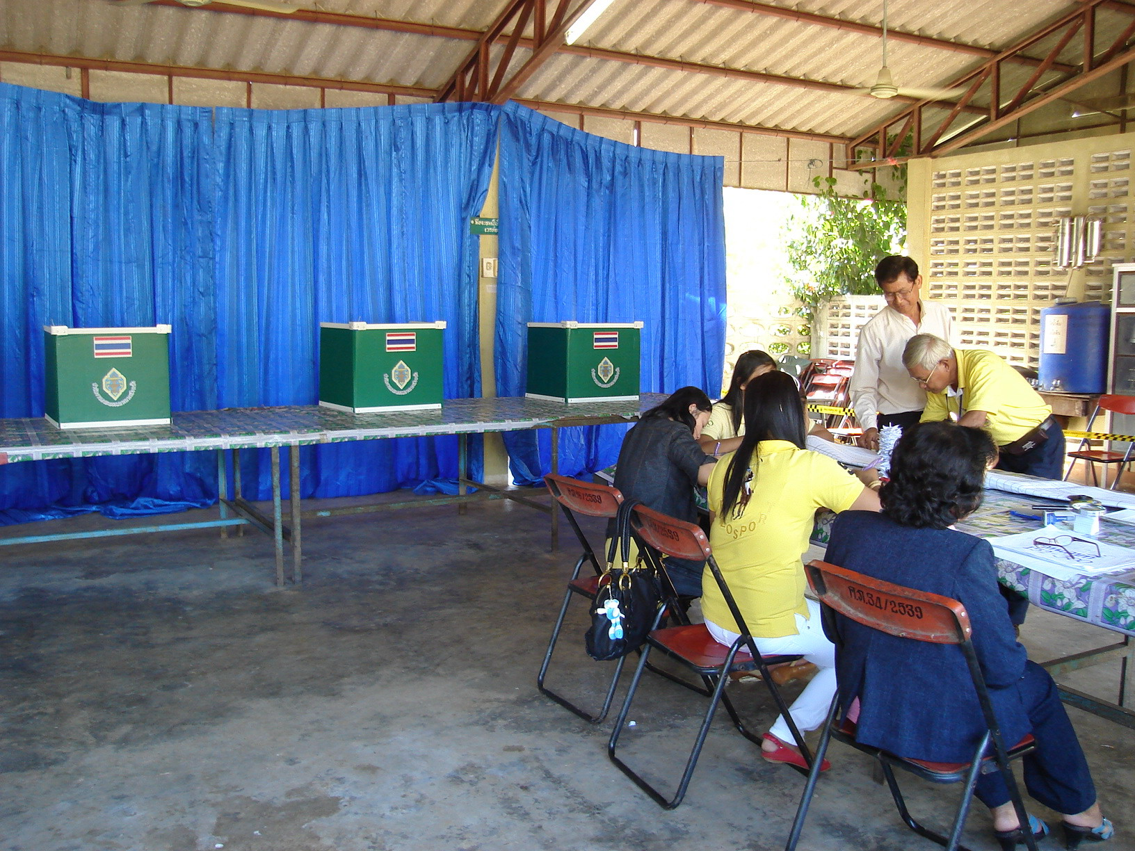 Polling station in Ban Khung Taphao, Khung Taphao subdistrict, Mueang Uttaradit, Uttaradit Province, Thailand. on December 23, 2007. (Thai general election, 2007)